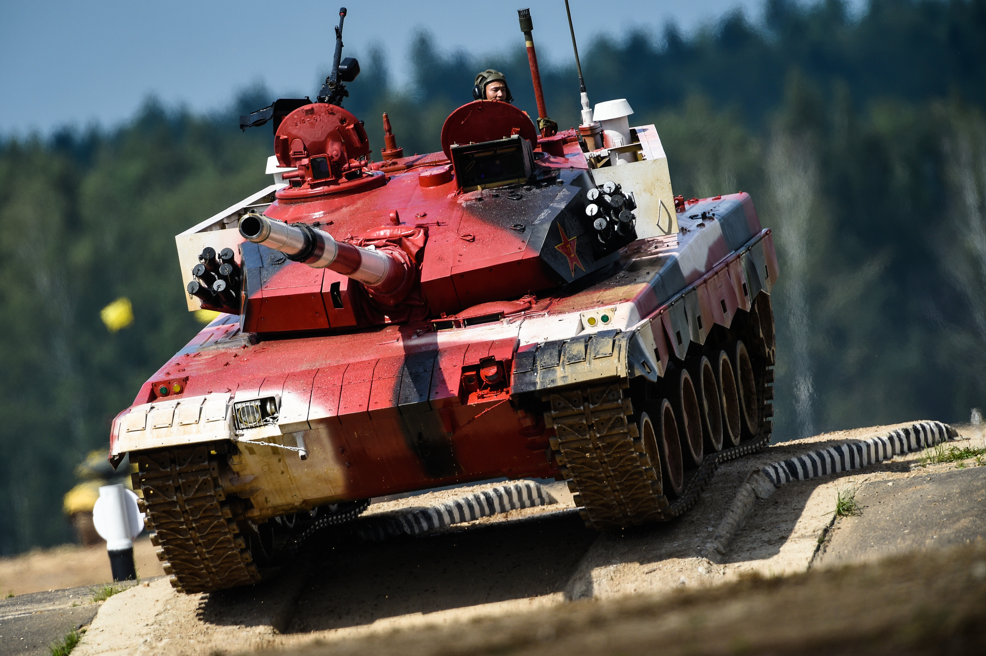 Type 96B. Tank Biathlon 2018.